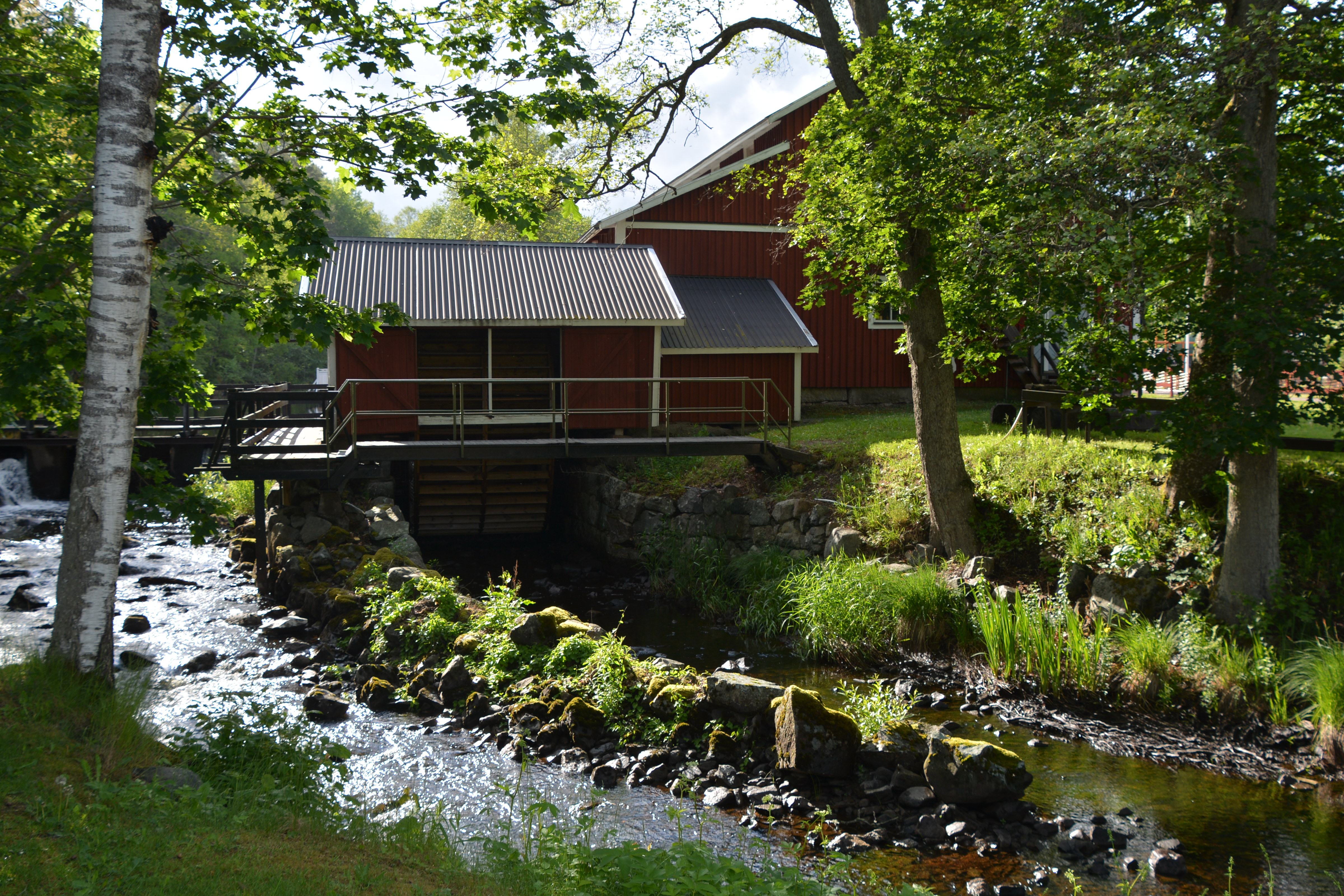 Virserumsån i Virserum, vid Virserums möbelindustrimuseum